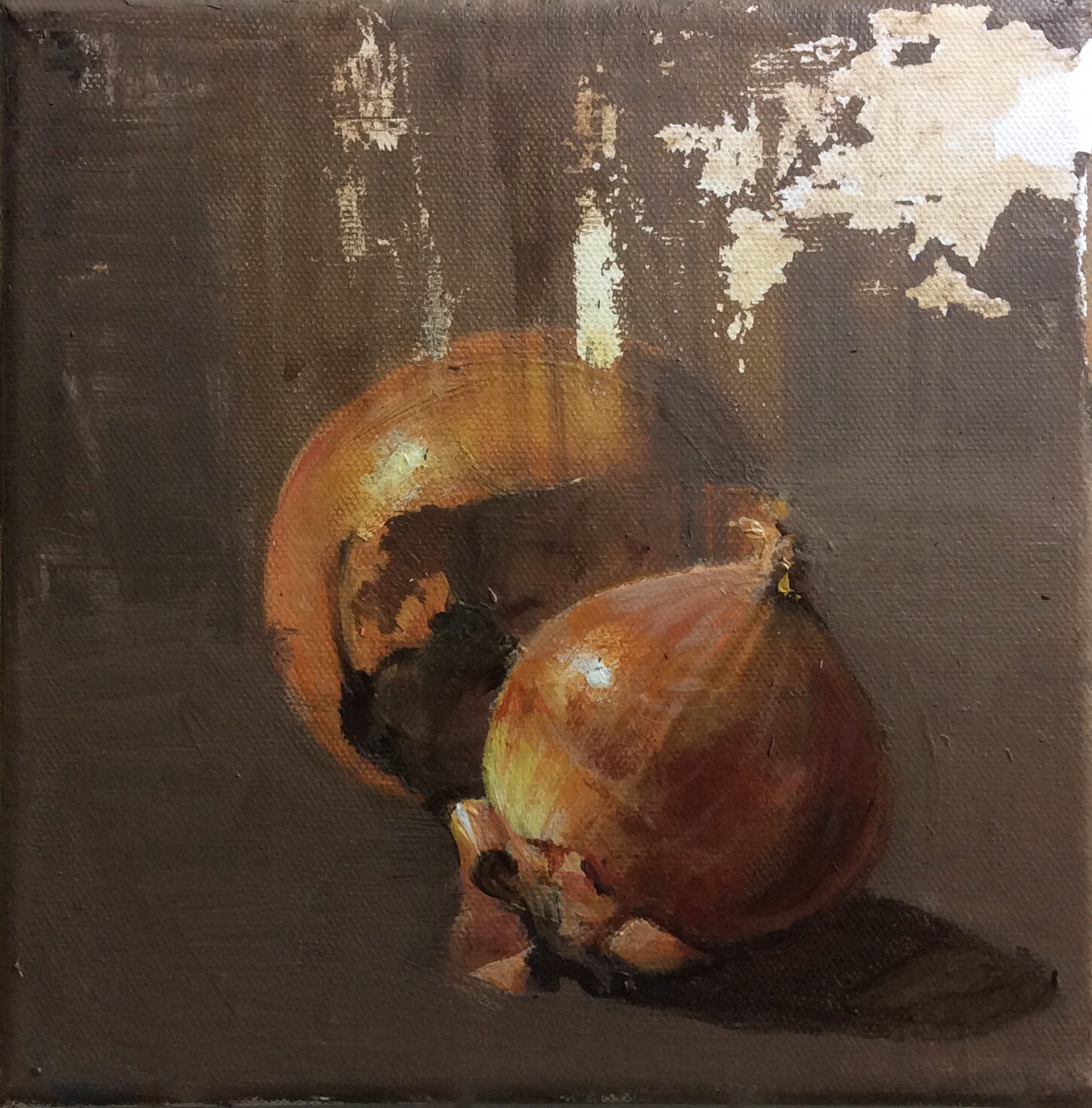 Töredék hagymával, 20x20 cm, akril, vászon, 2019